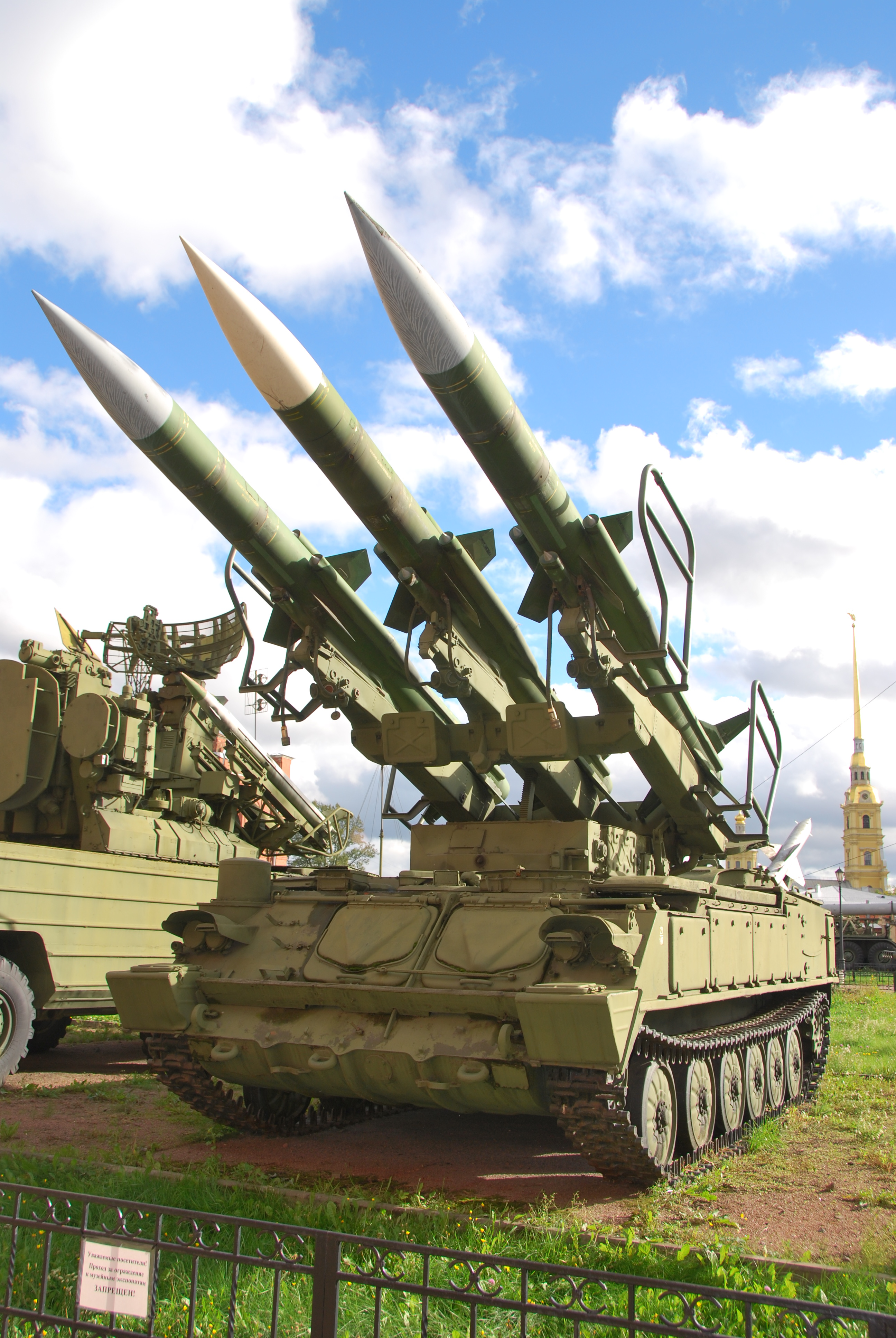 2P25 TEL with 3 3M9 missiles of the surface to air missile complex 2K12 «Kub» in Saint Petersburg Artillery museum